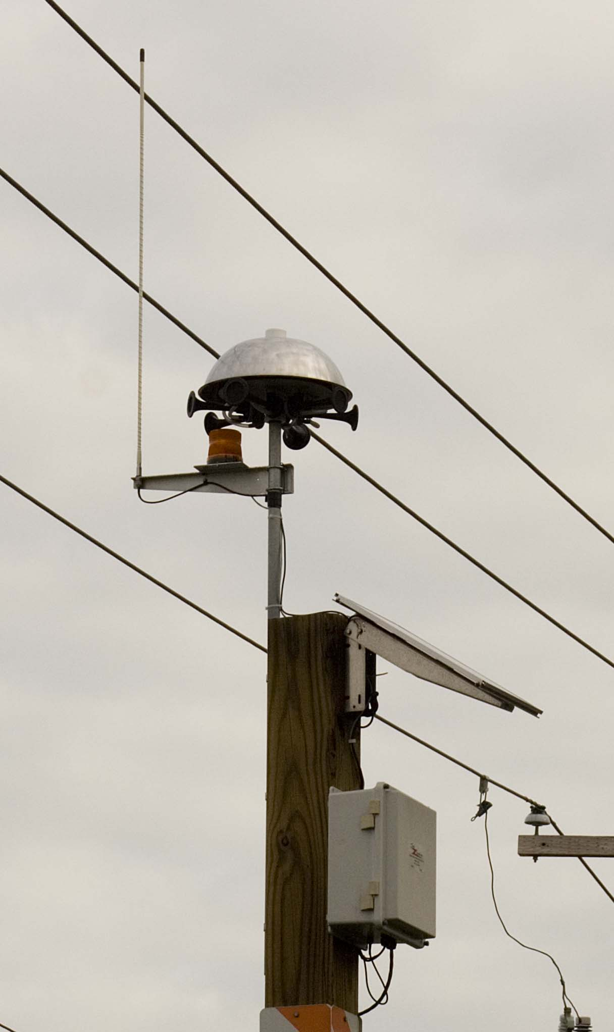 A Thor Guard Lightning Prediction System, as deployed by the Niles Parks District, Niles, Illinois, United States